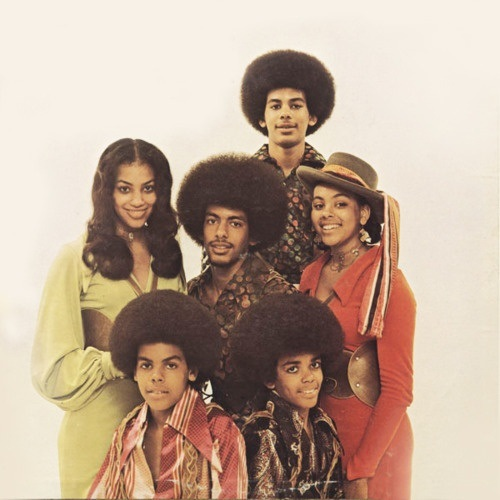 Trade ad for The Sylvers' single "Fools Paradise". To better adapt it to his respective Wikipedia article, the ad was cropped and cleaned in a graphics editing program. The original can be viewed at the source below.